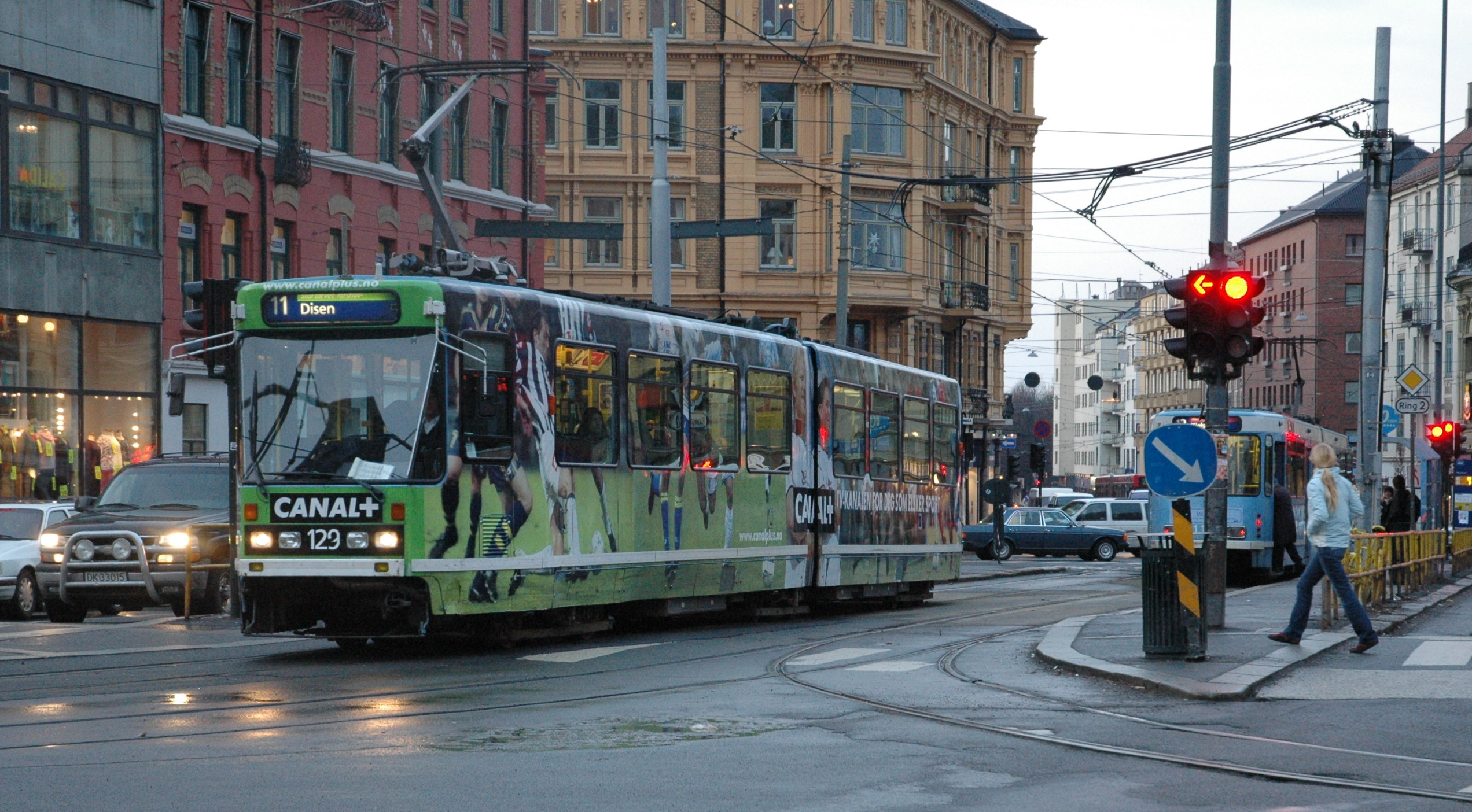 Number 129 of Oslo tramway, a SL79 of second series from ABB, at Majorstuen. To the left the rear end of an original SL79.